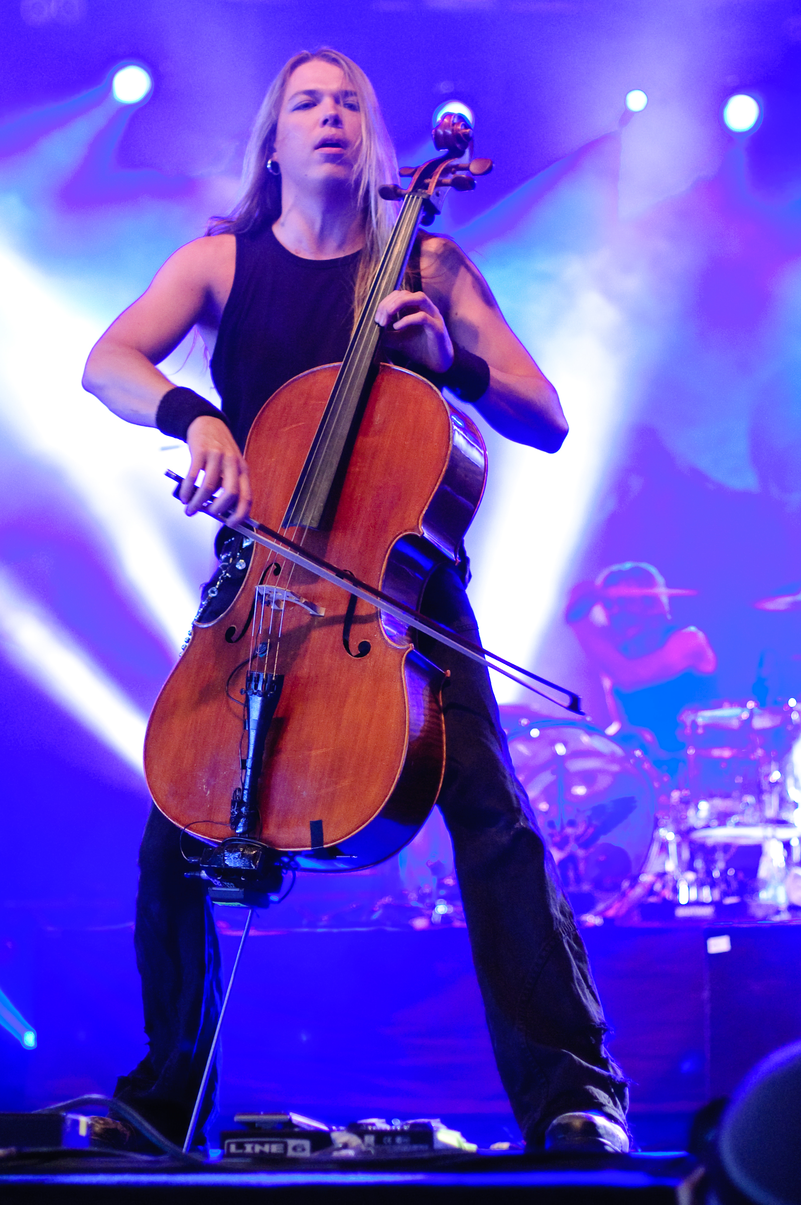 Cellist Eicca Toppinen of Apocalyptica performing at the Ilosaarirock festival in Joensuu, Finland.